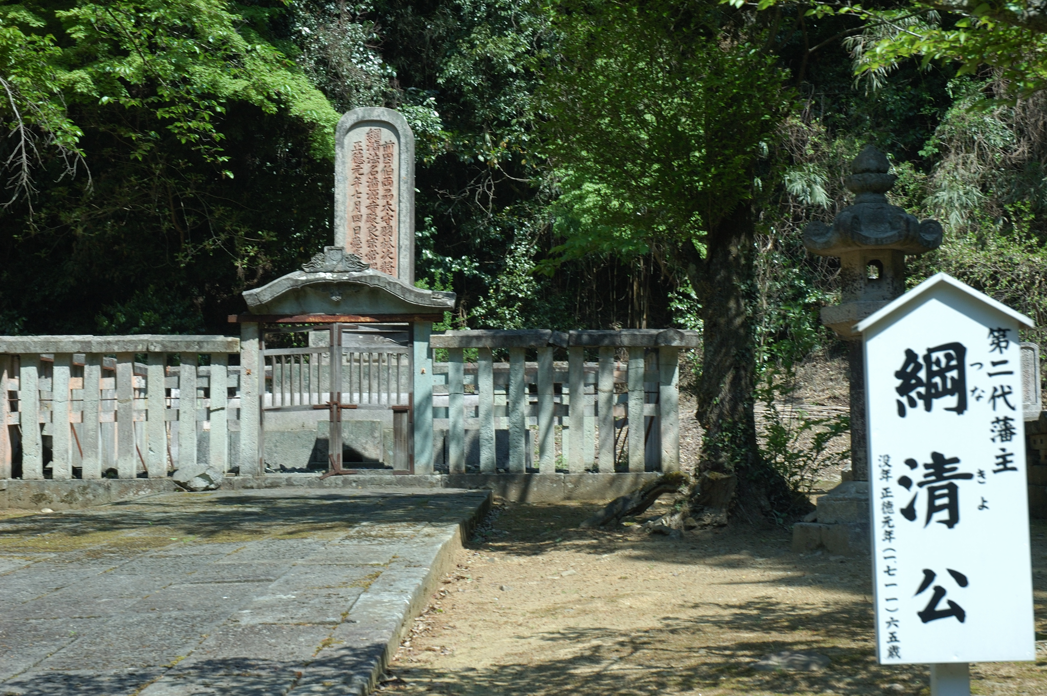 grave of Ikeda Tsunakiyo(the second feudal lord)